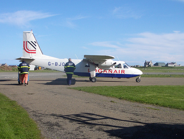 North Ronaldsay airstrip